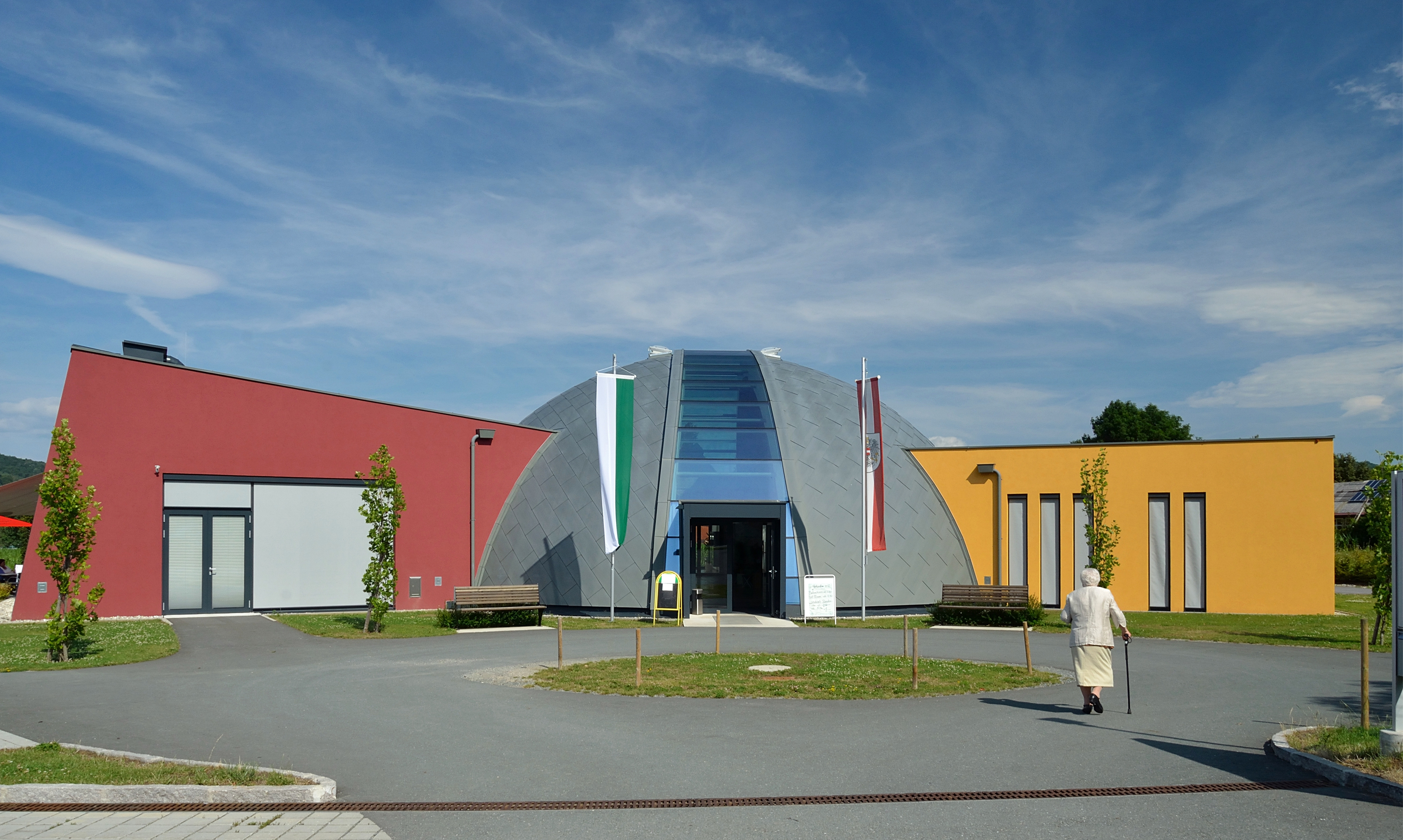 The municipal office of Großklein, Styria, was built in 2012 and planned by architect Ivo Pelnöcker. In addition to the municipal office there is a medical center integrated in the building.